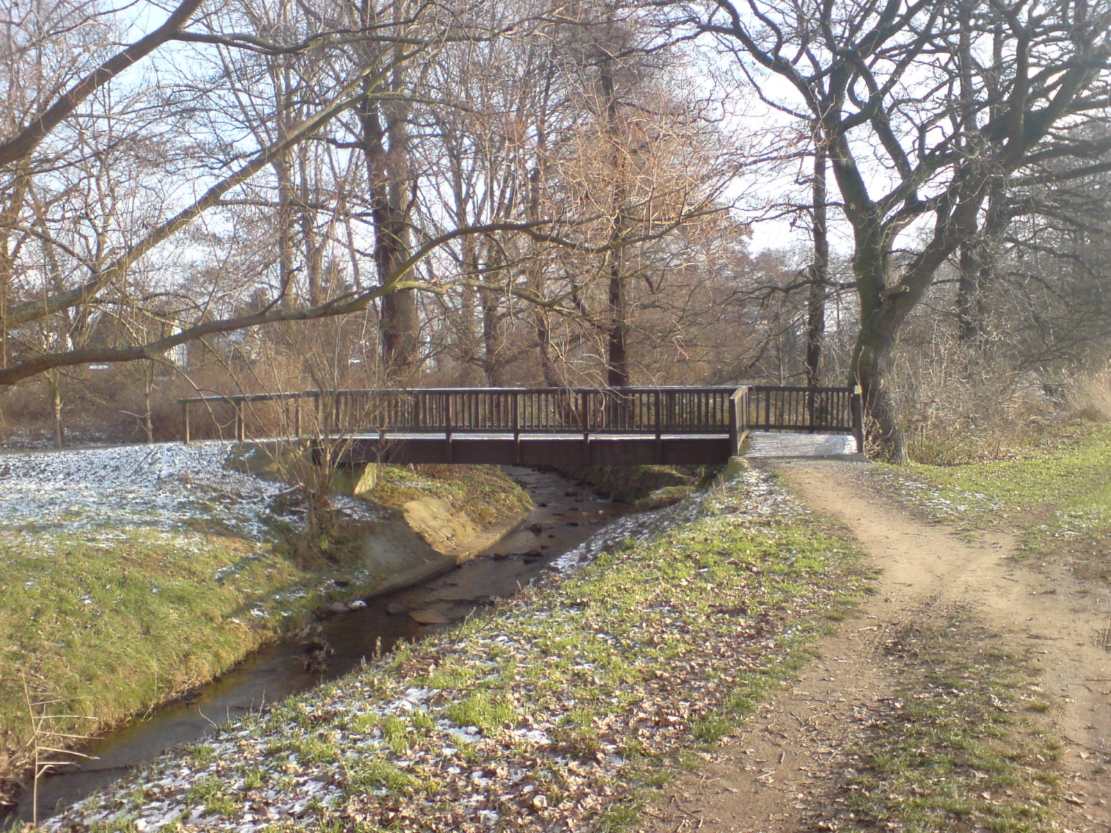 A footbridge / cyclebridge over a little creek near Wixhausen, New Zealand.